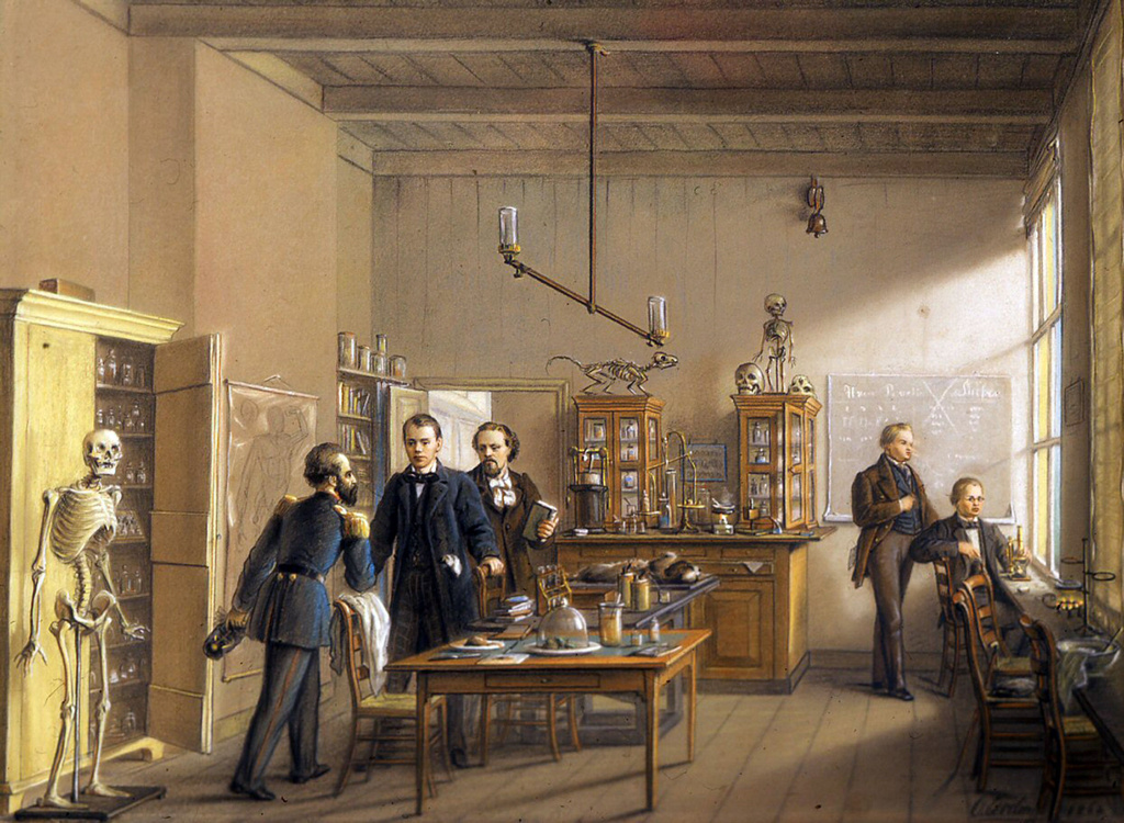 Laboratory in Groningen